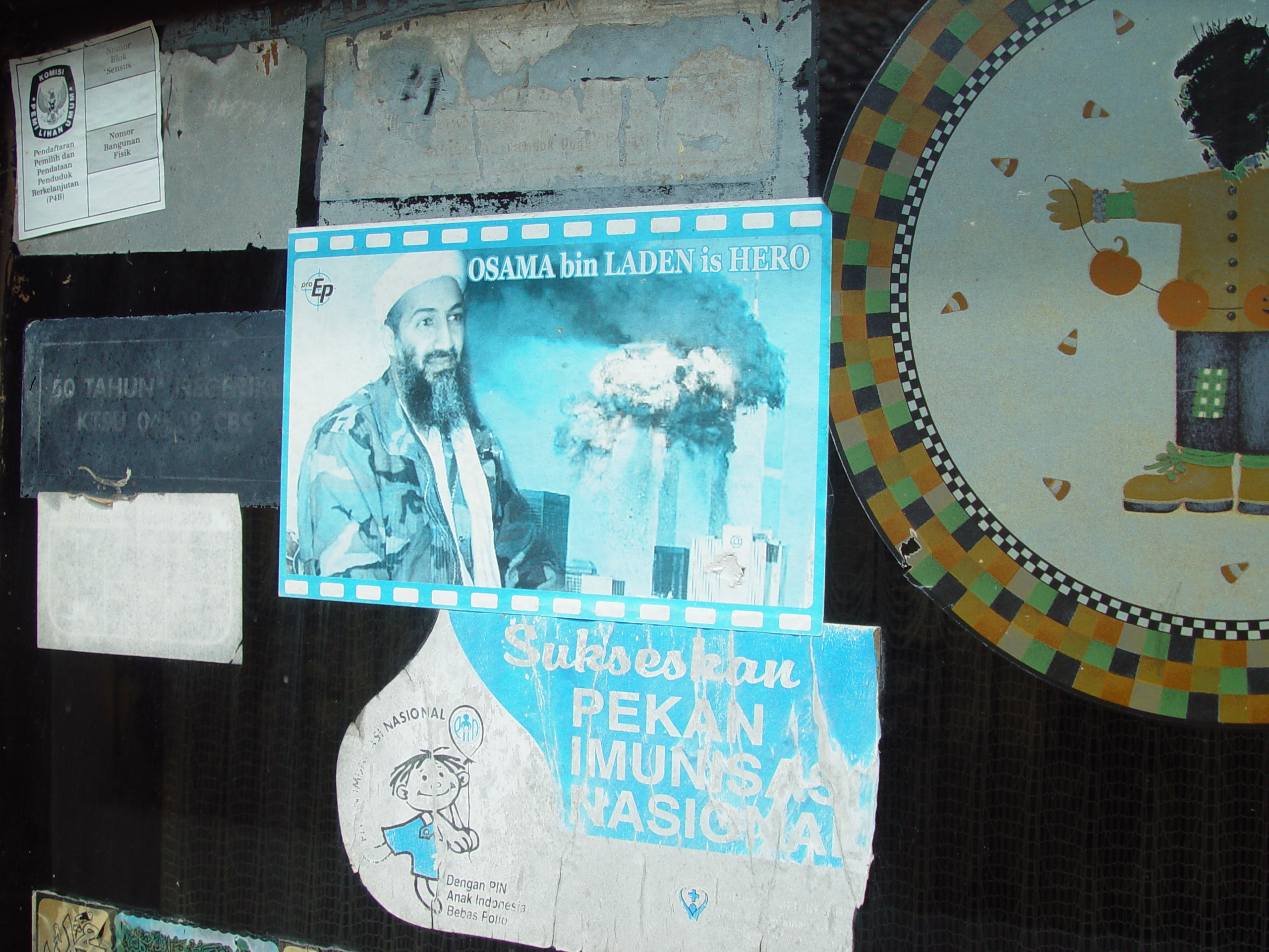 Slum life, Jakarta Indonesia.